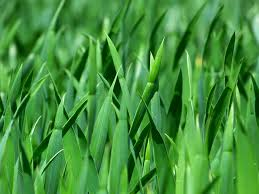 Blades of grass – detailed view on a meadow